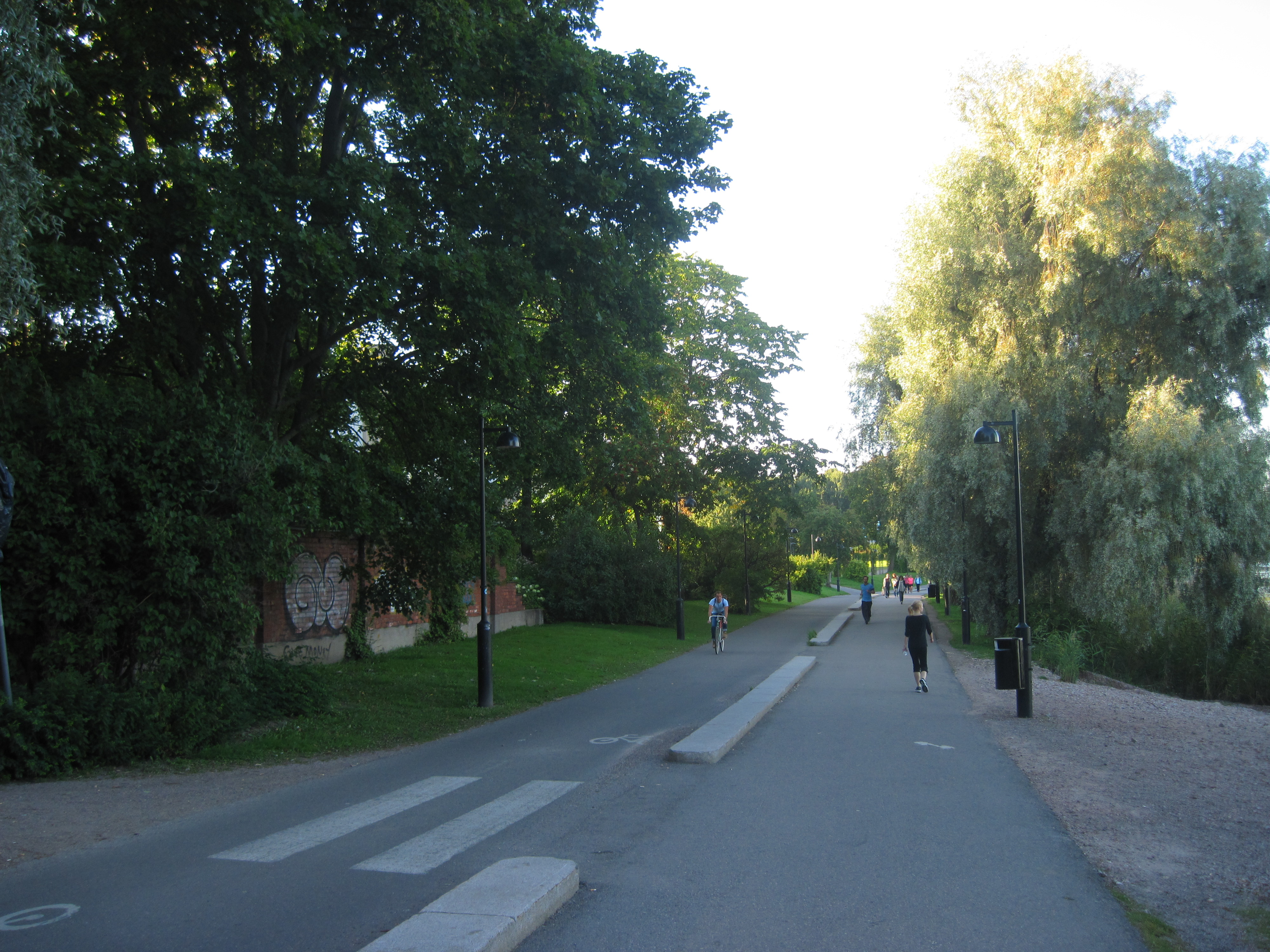 walking road at the shore of Töölönlahti, Helsinki